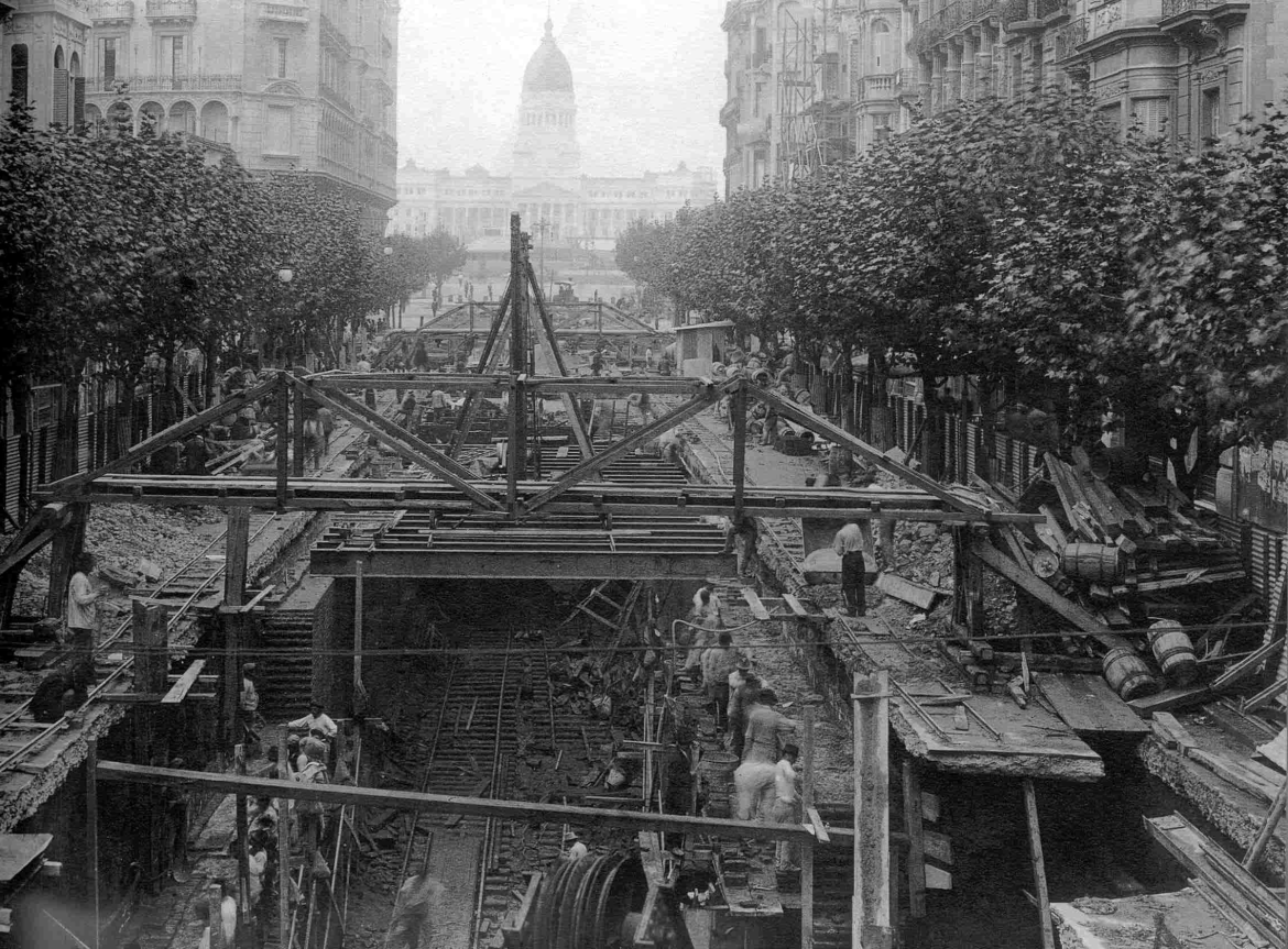 The Line A of Buenos Aires Underground under construction below the Avenida de Mayo, near Sáenz Peña station. At the background, the Argentine National Congress building.